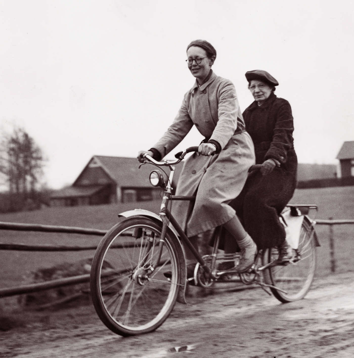 Flory Gate & Elin Wägner